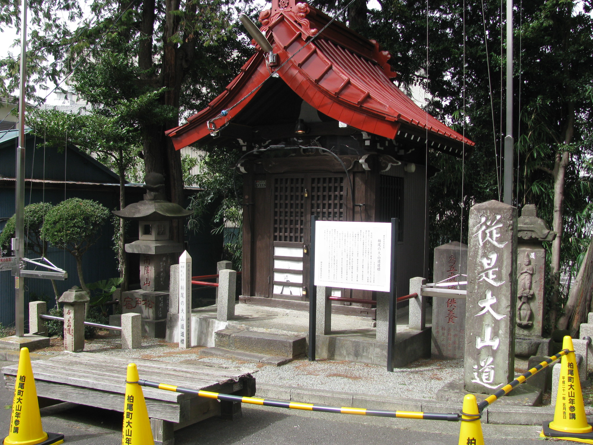 The Oyama-do is a one of historical street, And old signposts. This place is intersection with the Tokaido in Totsuka-ku, Yokohama, Kanagawa, Japan.